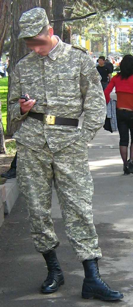 A soldier of the Kazakhstani Army when he is out of duty.